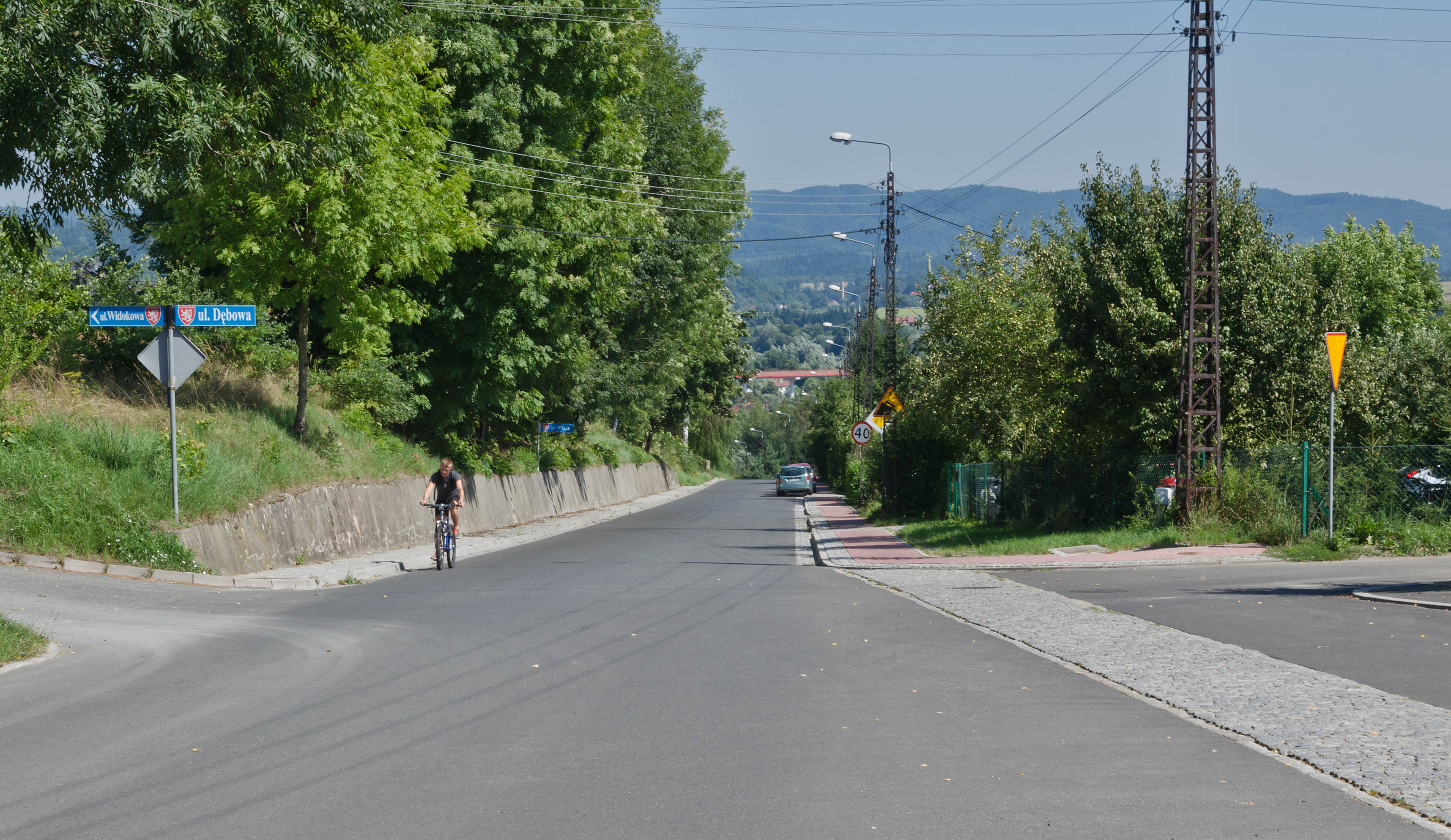 Nowy Świat Street in Kłodzko